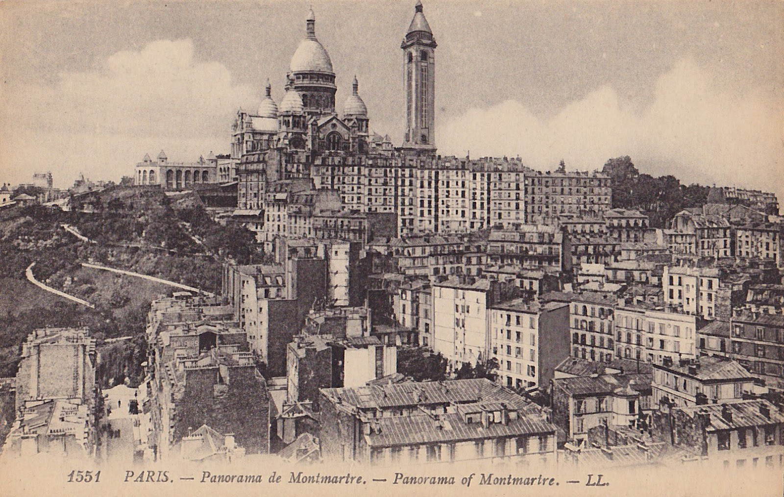 Montmarte (Paris, 1915)